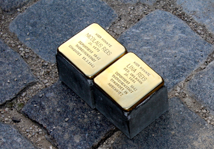 Stolperstein for Nicolaus and Lina Reis, Celtisstraße 3, Nuremberg